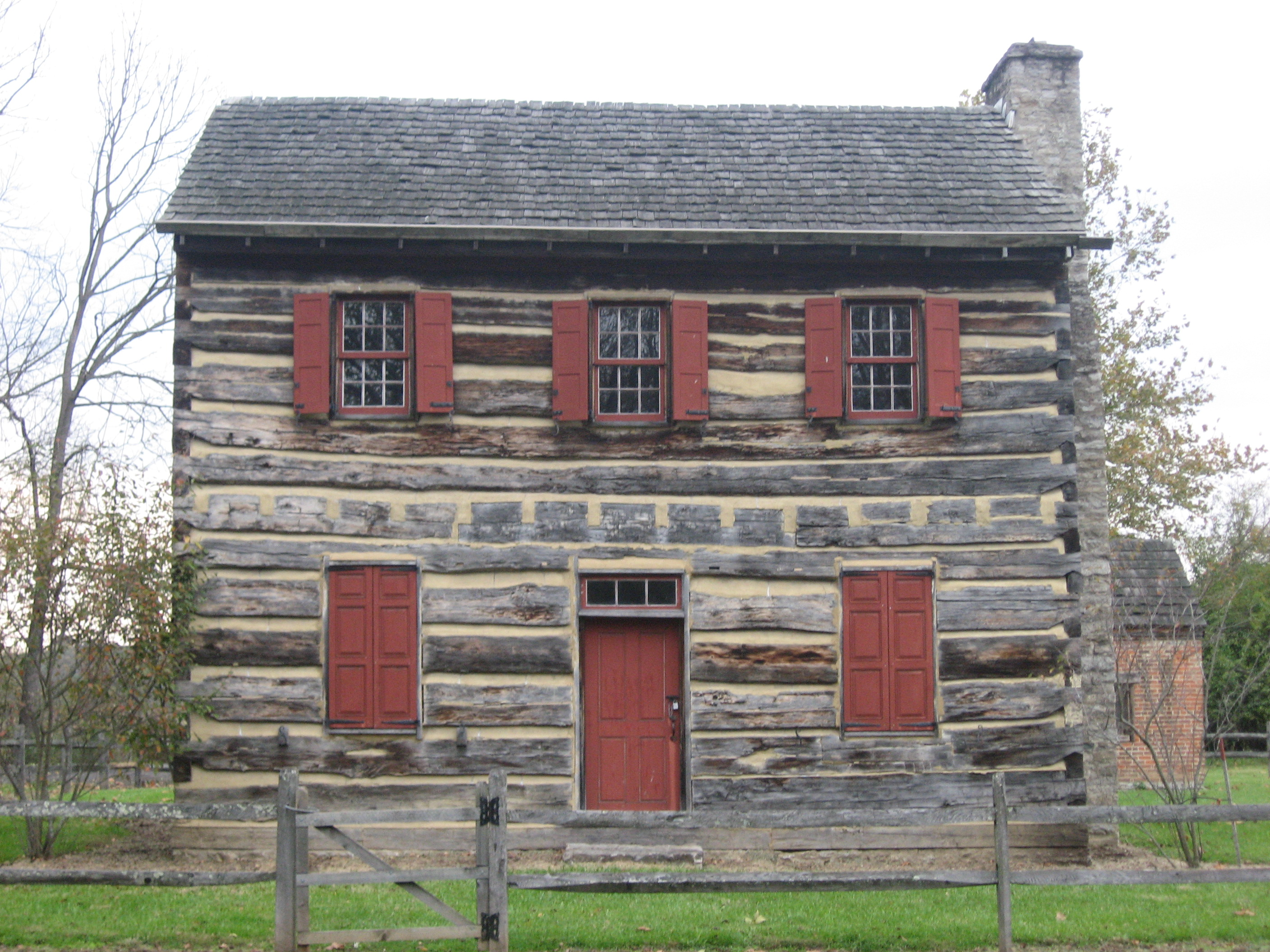 Front of the Zachariah Price Dewitt Cabin, located in a park off State Route 73 east of Oxford in Oxford Township, Butler County, Ohio, United States. Built in 1805 and now operated as a historic house museum, it is listed on the National Register of Historic Places.